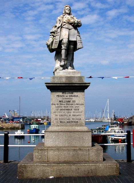 William, Prince of Orange at Brixham A statue of William III, who landed in Brixham on 5th November 1688. In a bloodless revolution he took the throne from James II who went into exile.